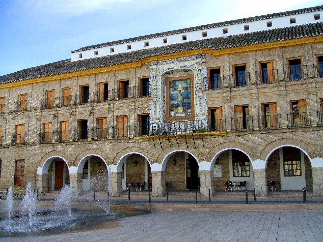 Casa del Monte (Baena)